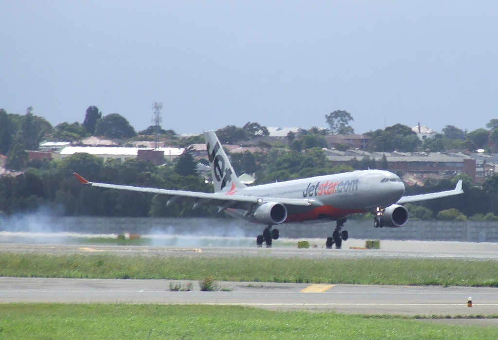 Jetstar A330 touching down on Sydney's runway 25